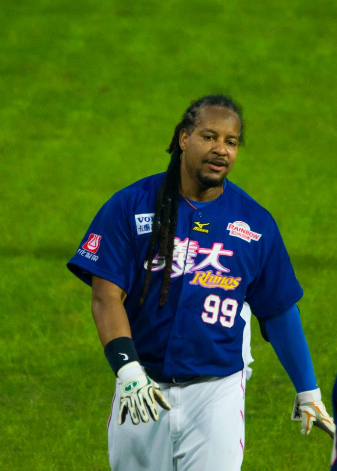 Manny Ramírez at a baseball game of Xinzhuang of Taiwan in April 19, 2013.